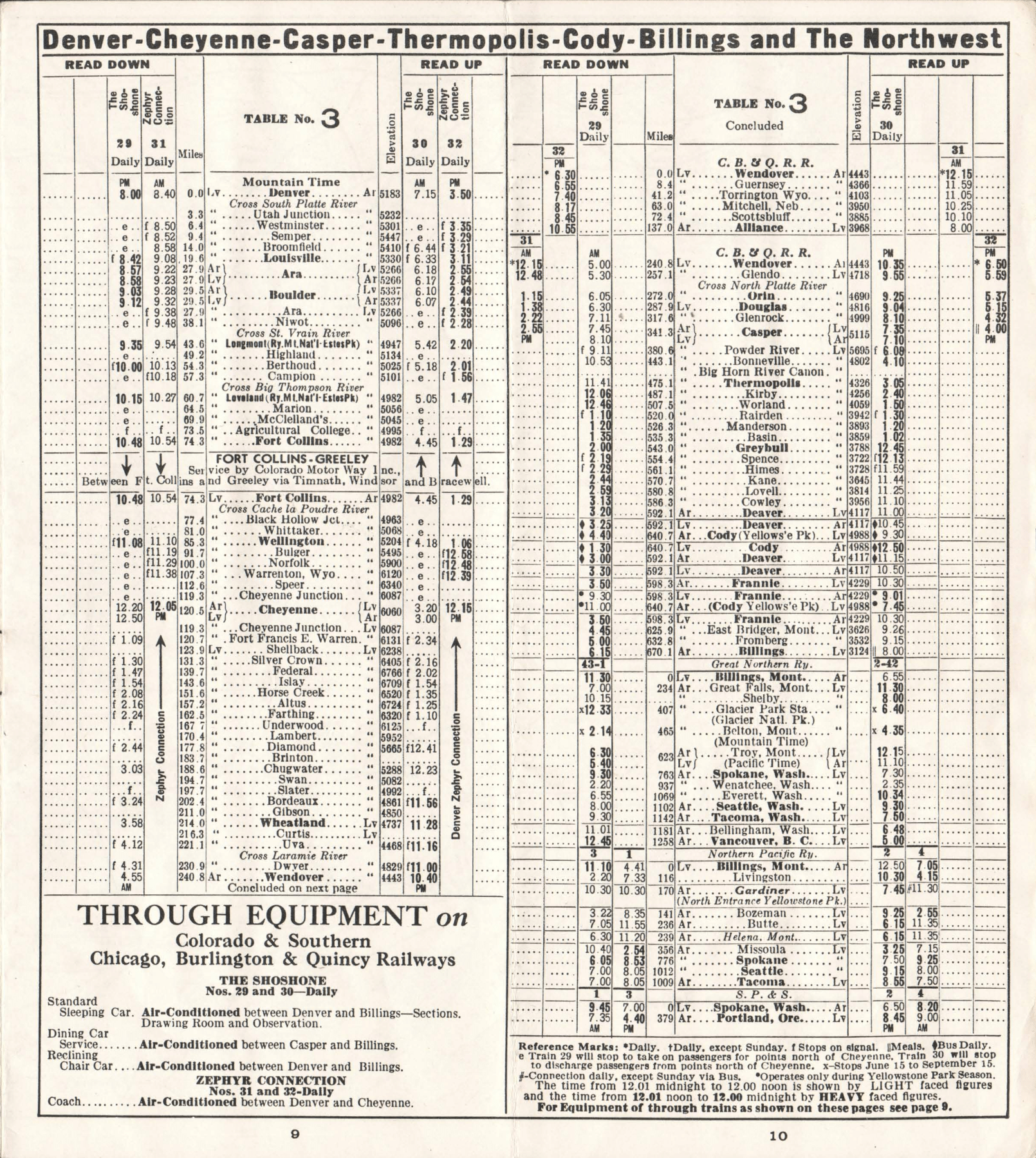 1946 Timetable of Colorado and Southern Railway trains numbers 29 and 30 "The Shoshone"